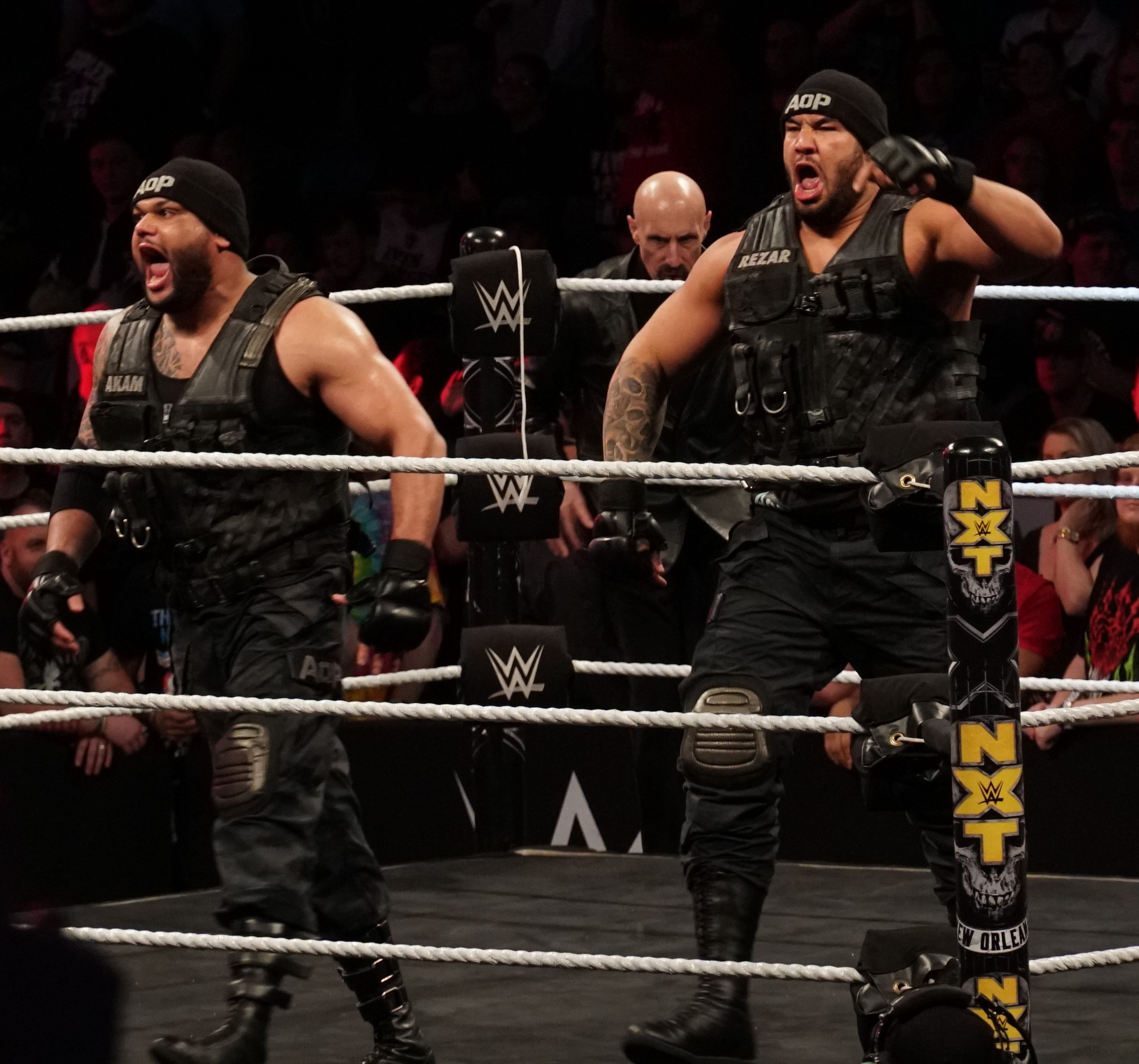 Akam and Rezar in the ring at NXT TakeOver: New Orleans in April 2018.